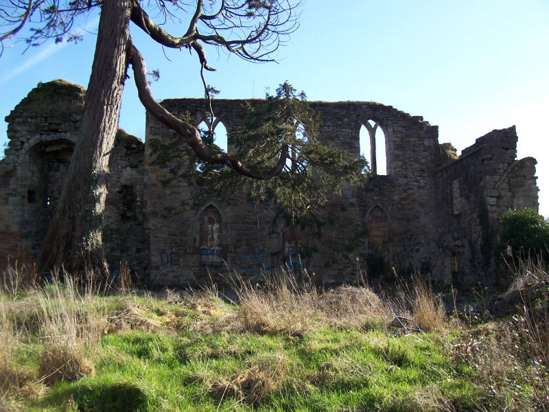 Internal view of the southern wall of Kerelaw Castle, Stevenston